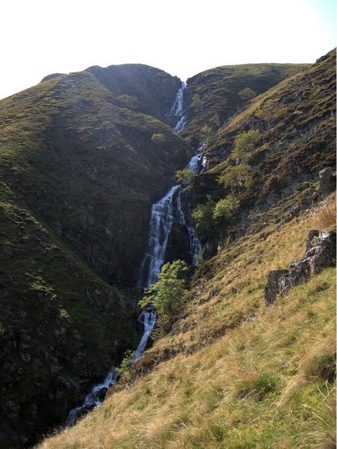 Cautley Spout. The upper section of the waterfall. The line of the stream turns by 90 degrees below this point and continues to cascade. The following lower section can be seen from quite a distance away: 243597.